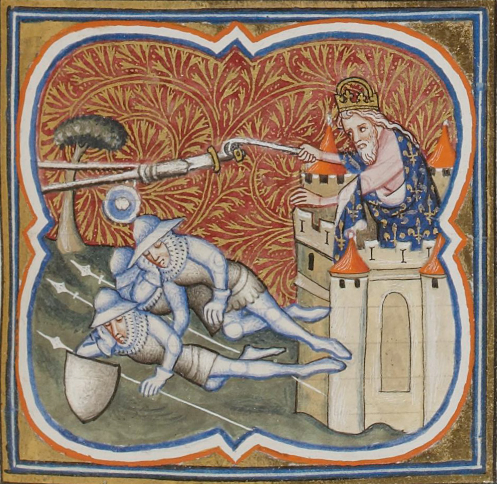 Louis the Pious, imprisoned at Soissons, steals the sword of a sleeping guard. fol. 142 (60 x 65 mm) Grandes Chroniques de France (BNF, FR 2813)